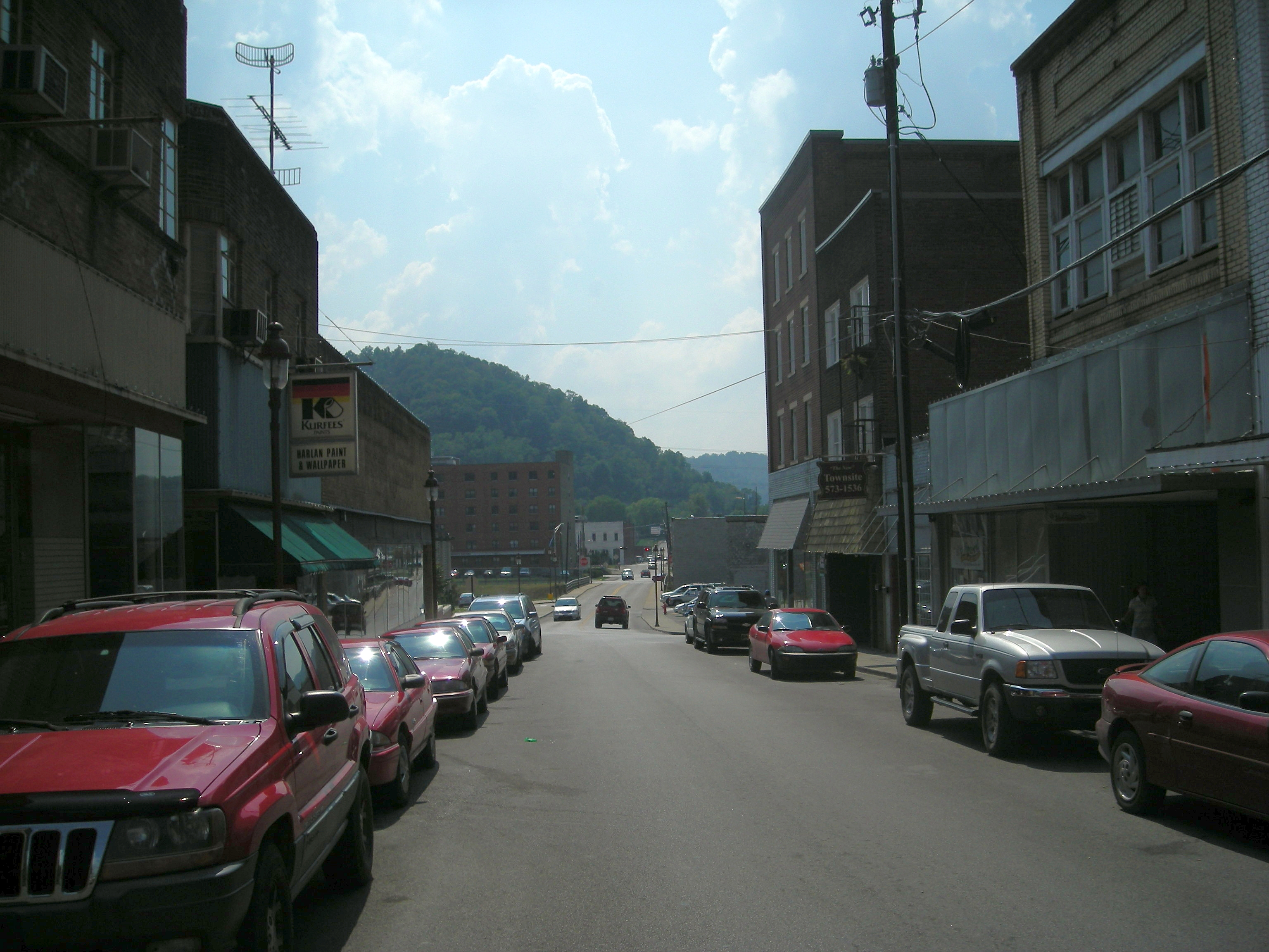 Harlan Commercial District